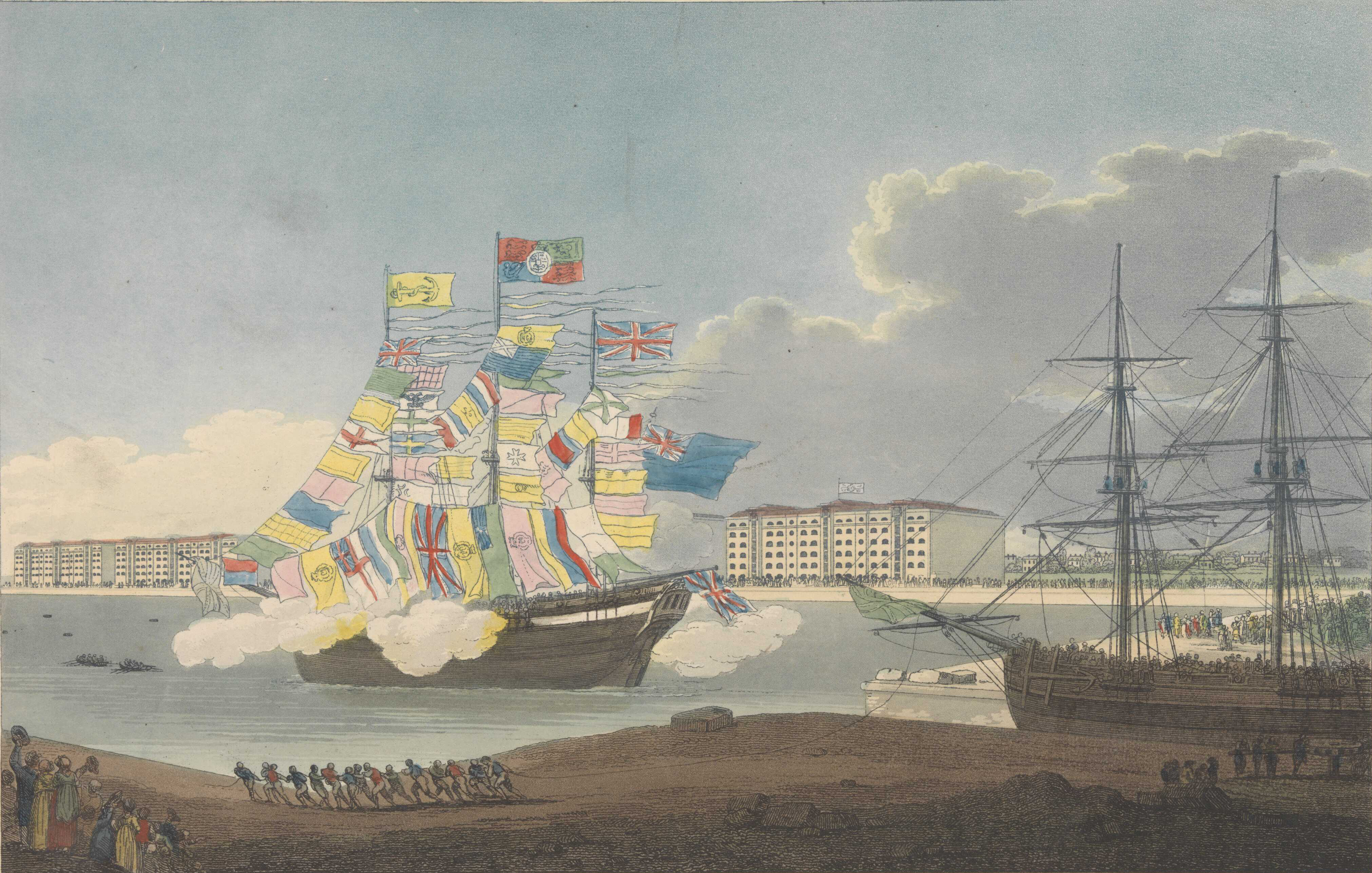 West India Docks. View of the Opening of the Grand Dock with.... the Henry Addington... decorated with the colours of all Nations.... 27 August 1802, and the Echo Print West India Docks. View of the Opening of the Grand Dock with.... the Henry Addington... decorated with the colours of all Nations.... 27 August 1802, and the Echo Newspaper clipping